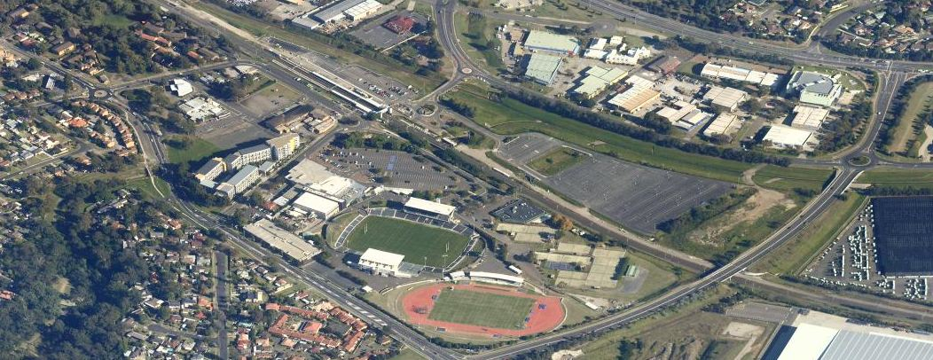 Aerial image of Leumeah taken whilst flying by